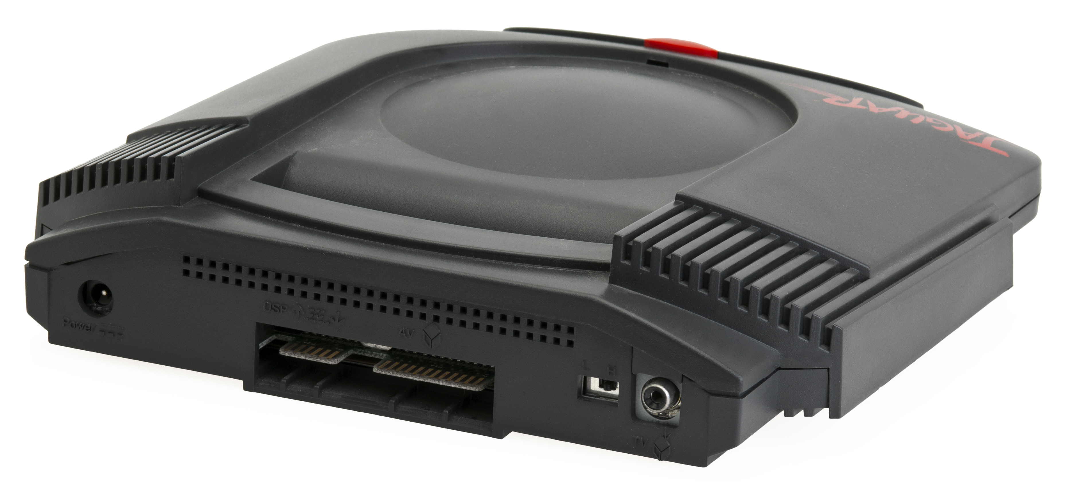 The back of the Atari Jaguar video game console, showing inputs and outputs.